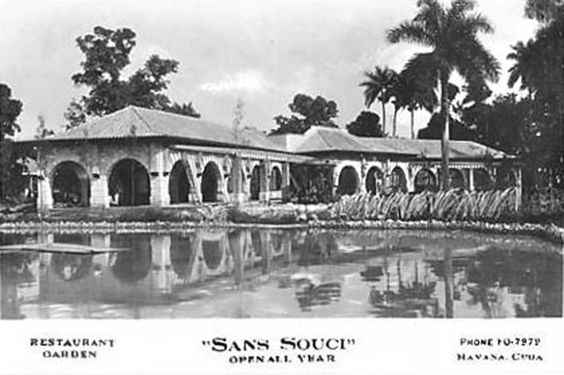 Havana's Sans Sousi nightclub in the 50s